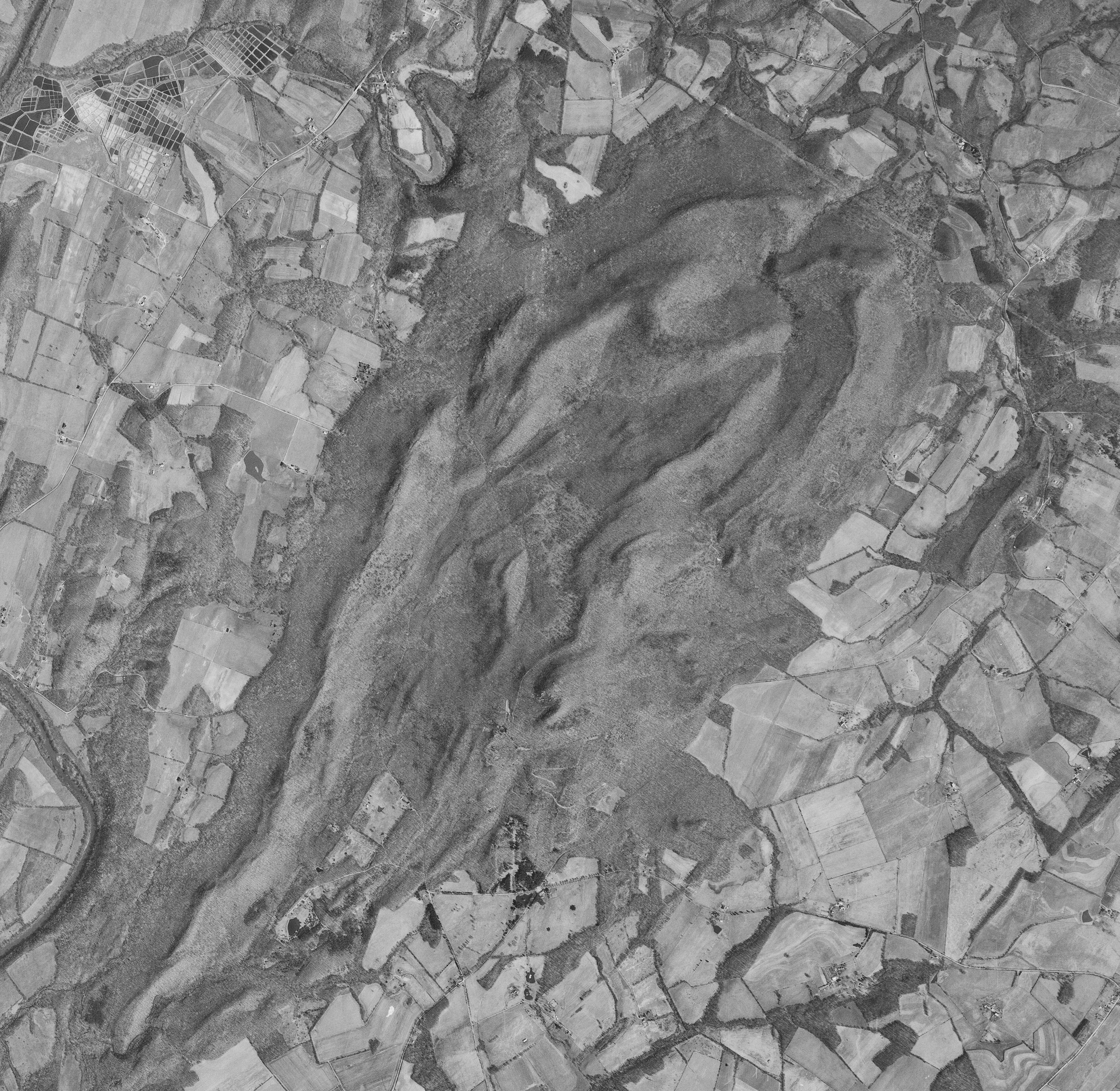 Air photograph of Sugarloaf Mountain, Maryland. The image width is approximately 4.7 miles or 7.5 km. 1VCRJ00030555 is the USGS photo identifier.